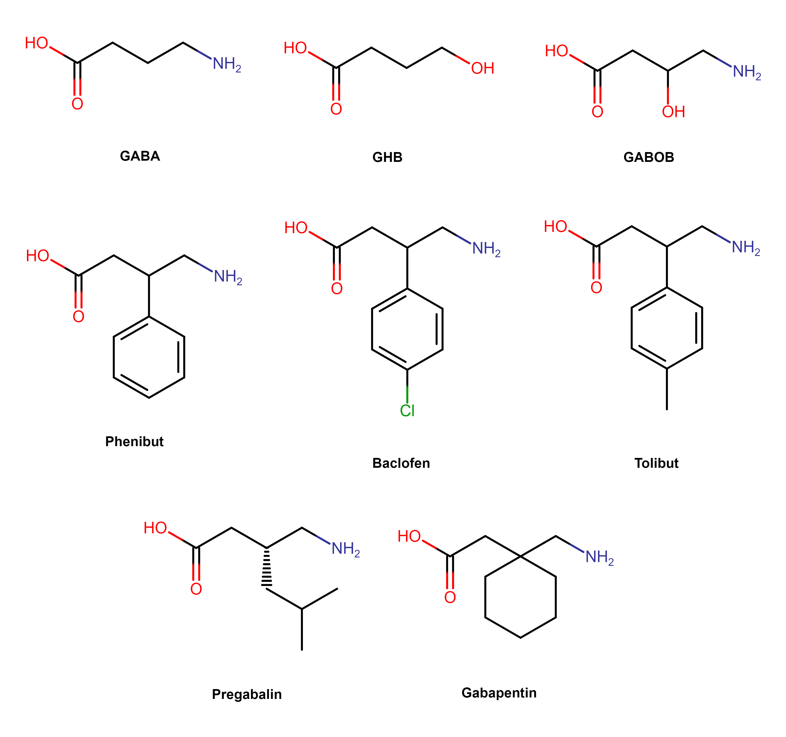 I made this using Marvin JS.